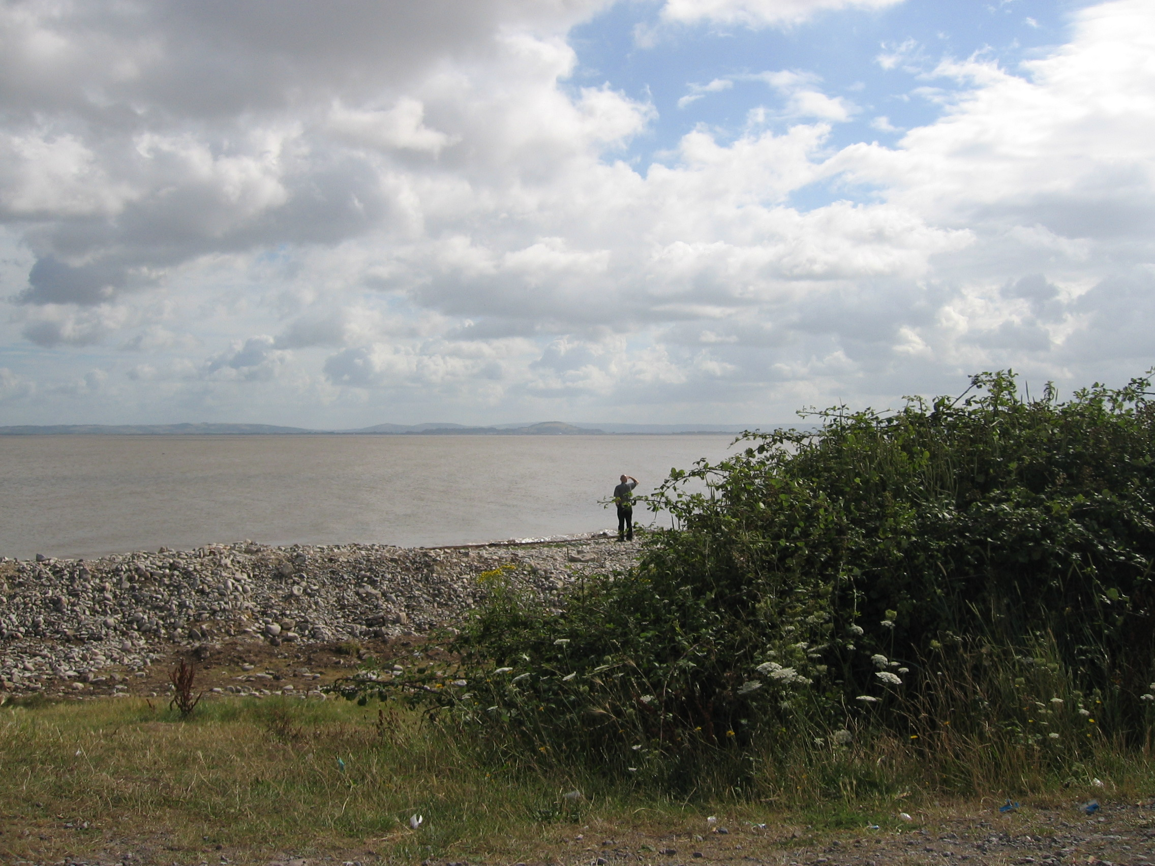 Bridgewater Bay near the mouth of the River Parrett, taken in summer, 2006Celiakozlowski 20:42, 18 September 2007 (UTC)CeliaKozlowski